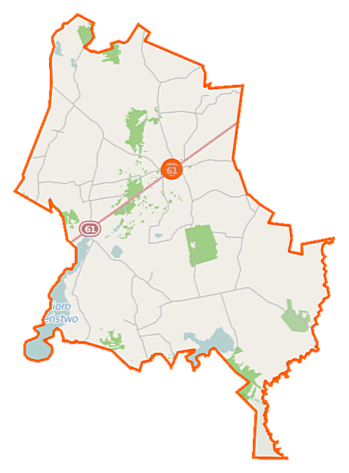 Map of Gmina Bargłów Kościelny, Poland This map of Bargłów Kościelny (gmina) was created from OpenStreetMap project data, collected by the community. This map may be incomplete, and may contain errors. Don't rely solely on it for navigation. Border coordinates53.848522.6868←↕→22.955253.6328